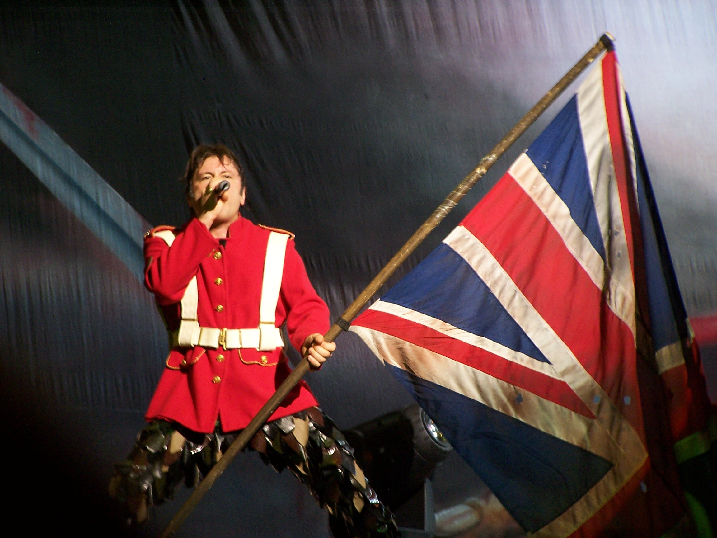 Bruce Dickinson performs with Iron Maiden in Mansfield, MA.